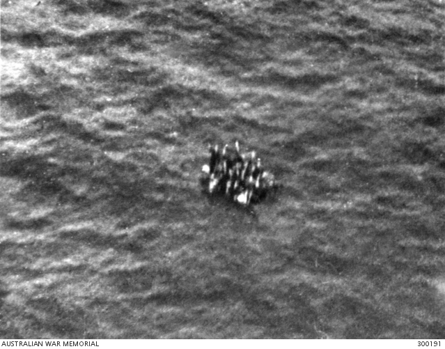 AWM Caption: Survivors from the Bathurst class corvette, HMAS Armidale, which was sunk on 1 December 1942 after being attacked by Japanese aircraft, south of Timor. On 7 December 1942, the survivors were sighted by an aircraft in a position about 280 miles north west of Darwin and about 33 miles north east of where Armidale had sunk. A Catalina flying boat was despatched from Cairns to pick up these survivors and reached the area on the afternoon of 8 December 1942. One of the Catalina aircrew took this picture, but the aircraft was unable to land because of the rough sea state. Despite exhaustive air and sea searches and the rescuing of other survivors, these pictured survivors were never seen again after the Catalina departed from the area.